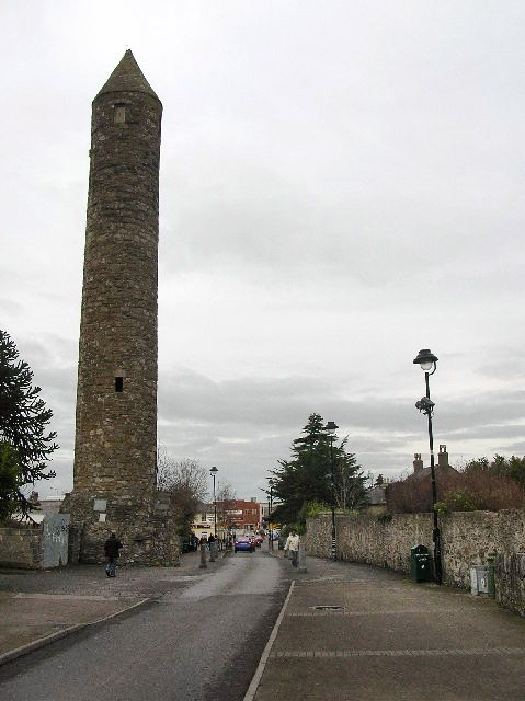 Round Tower - Clondalkin. Well preserved 8th century round tower that acts as a focal point for the area. Acknowledged as one of the oldest and best preserved in the country, it is 84 feet high and has its original conical cap. The foundation of the first monastery is attributed to St. Cronan, otherwise called Mo-Chua, who lived possibly in the 6th century. The monastery is first mentioned in 776. It was plundered by the Vikings in 832. [info from